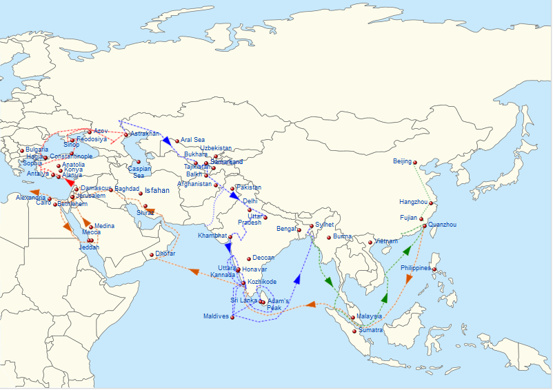 Ibn Battuta itinerary of 1332-1346